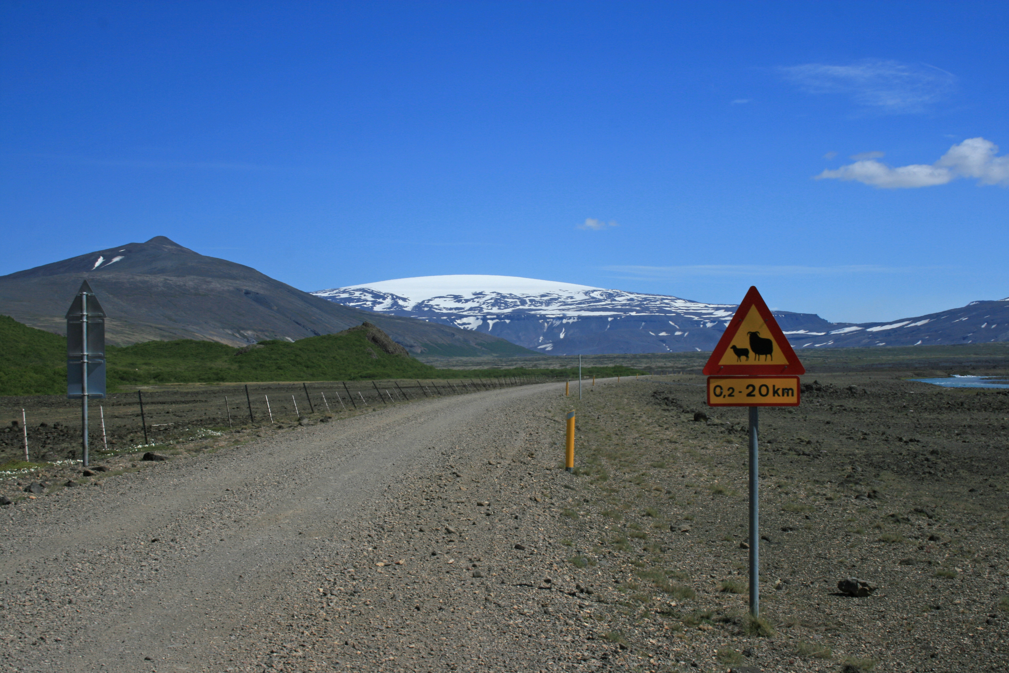 Danger - fat hellish creatures with horns on the next 0.2 - 20 kilometers. In the background the valley Kaldidalur leading to the glacier Eriksjökull.